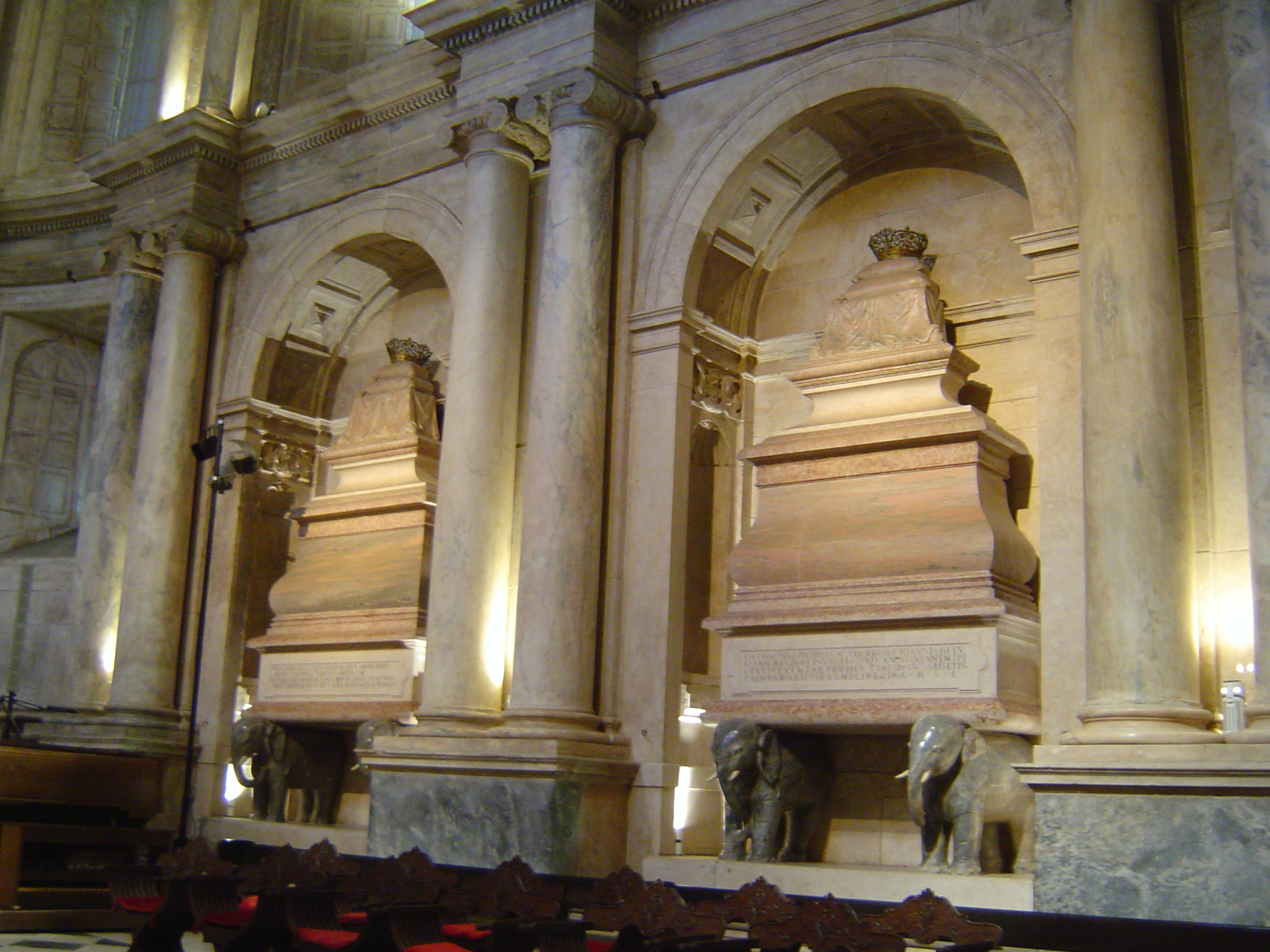 Royal tombs in the main chapel of Jeronimos Monastery, Lisbon, Portugal